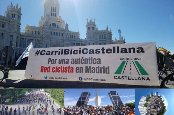 4 pictures taken during one of the demonstrations claiming for a cycle superhighway in Paseo de la Castellana, Madrid.